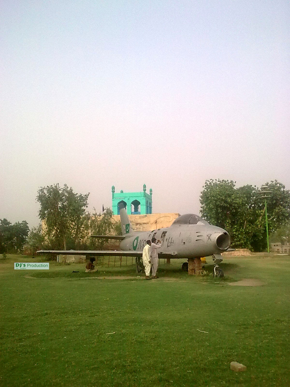 Old Jet Fighter in Multan placed Qasim Bagh